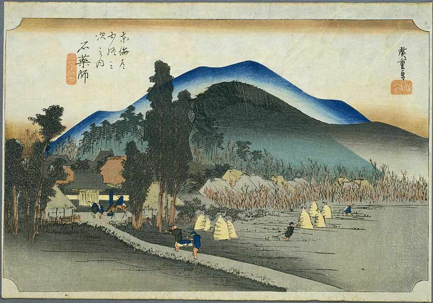 Ishiyakushi on the Tokaido, ukiyo-e prints by Hiroshige